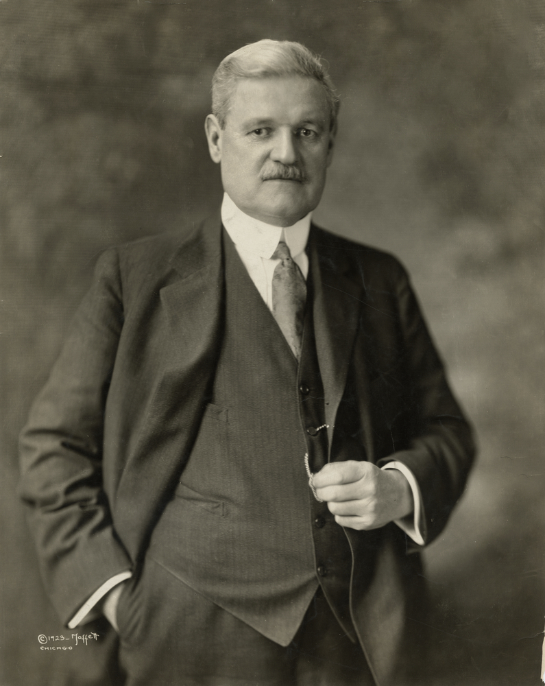 William Emmett Dever, Mayor of Chicago from 1923-1927. 33.4 x 26.2 cm